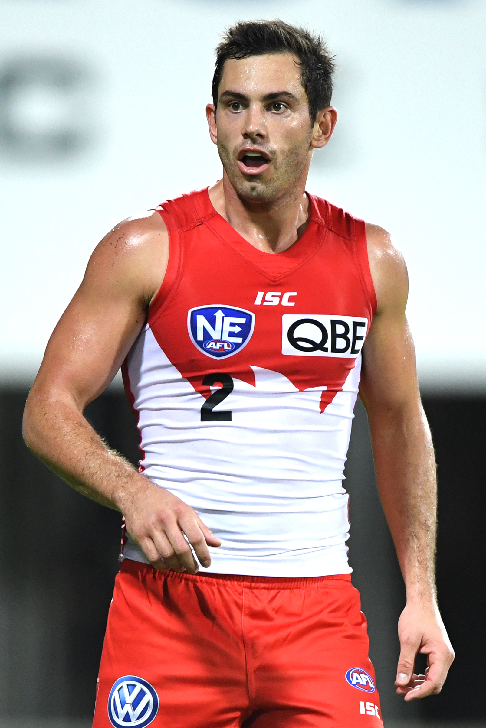 Daniel Menzel of Sydney during the 2019 NEAFL round 14 match between NT Thunder and Sydney at TIO Stadium on Saturday, 6 July 2019 in Darwin, Northern Territory.